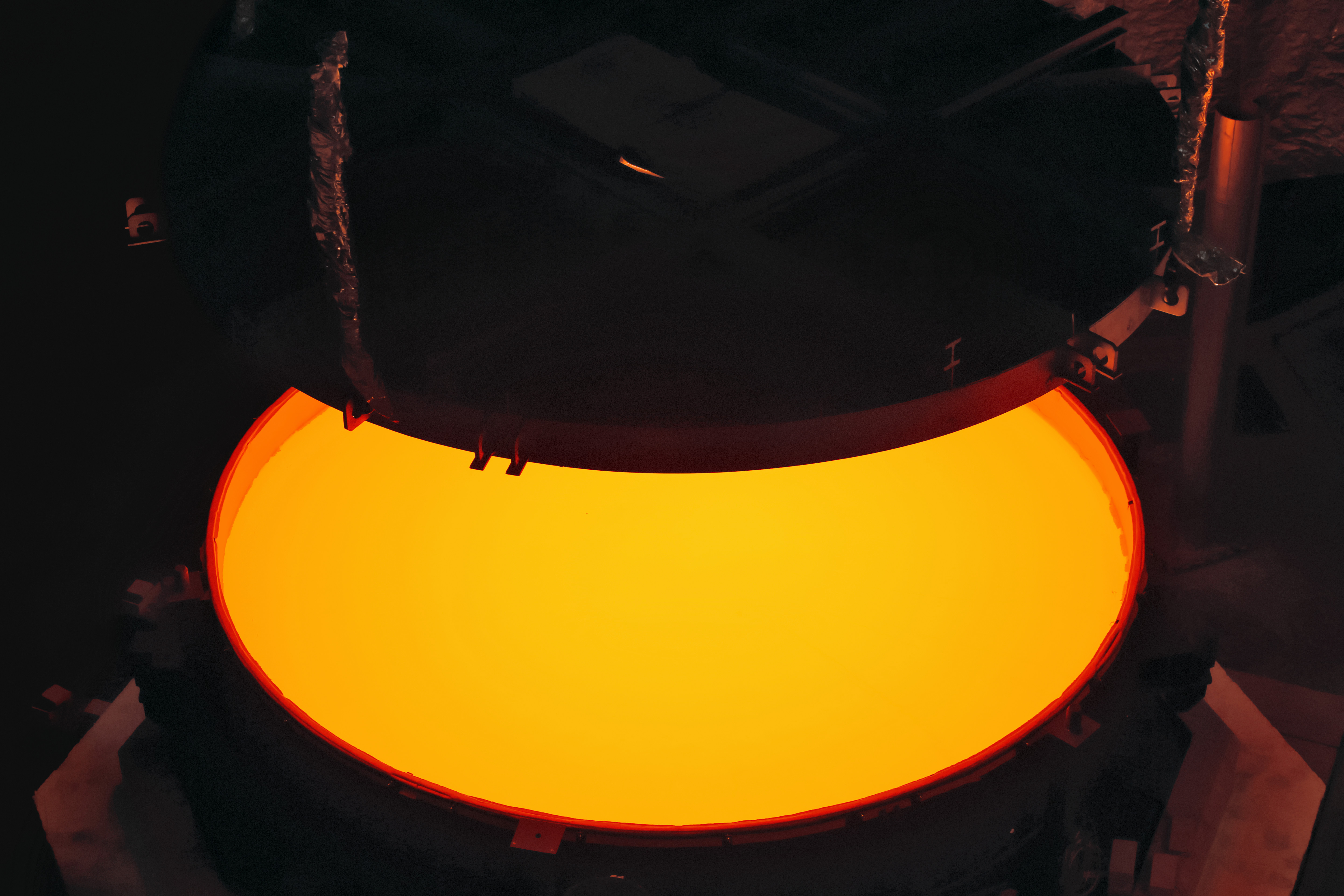 Opening of the ELT M2 ZERODUR® blank mould containing the still very hot ZERODUR® glass at first annealing at the SCHOTT 4-metre blank annealing facility in Mainz, Germany in May 2017. The completed mirror will be 4.2 metres in diameter and weigh 3.5 tonnes. It will be the largest secondary mirror ever employed on a telescope and also the largest convex mirror ever produced.